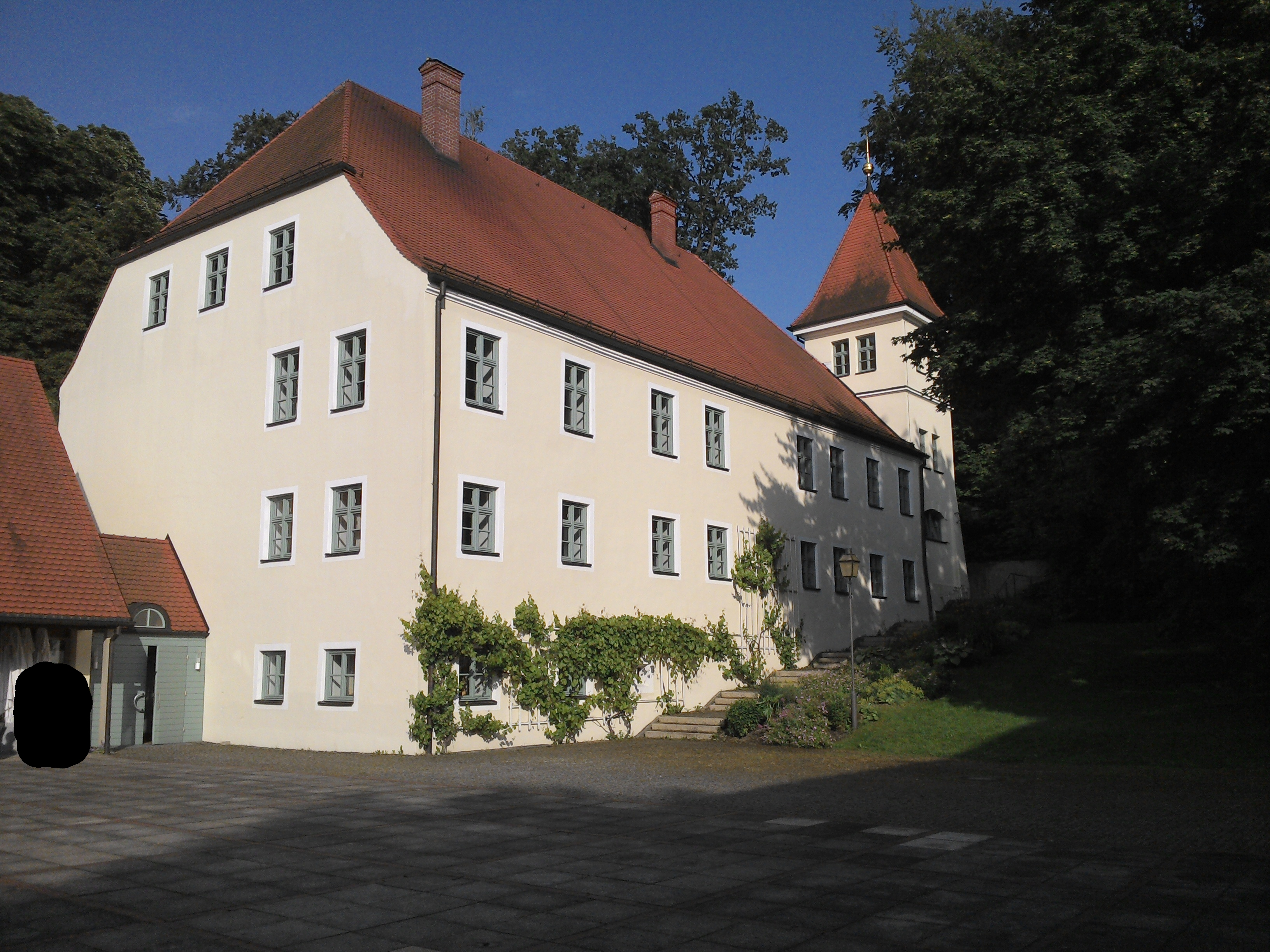 Schloss Thalhausen